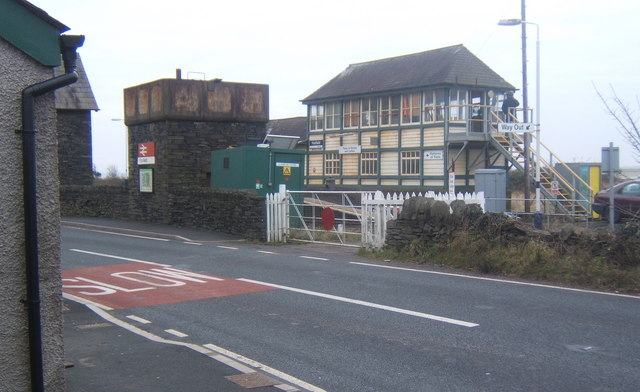 Foxfield station and signalbox Looking across the A595.